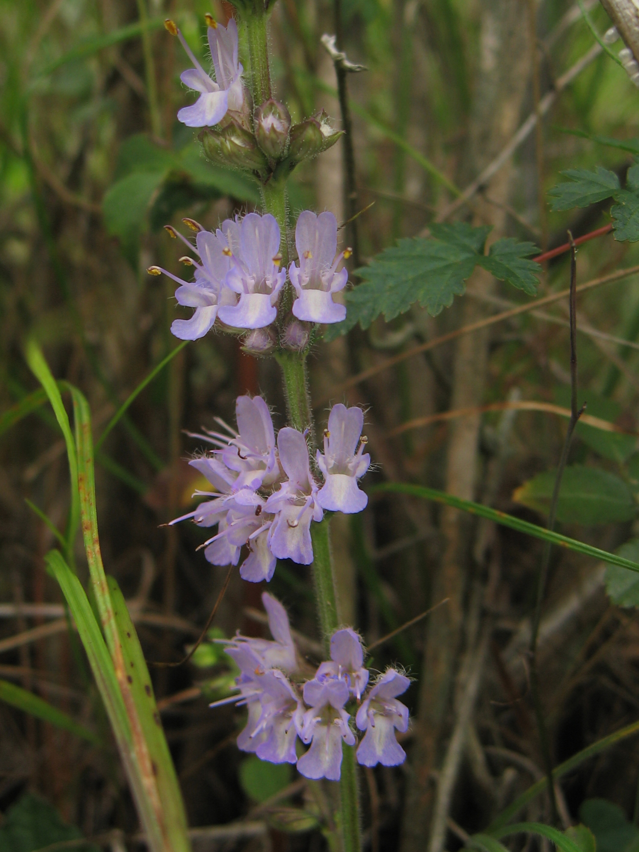 Salvia isensis Nakai ex Hara (flower) Date taken(YYYY-MM-DD): 2010-08-13 Place taken: Mt. Asama area, Ise-Shima National Park, Ise, Mie, Japan.